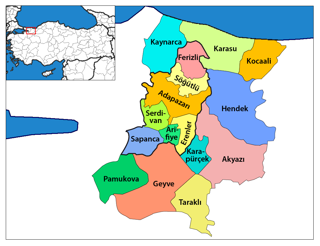 Map of the districts of Sakarya province in Turkey. Created by Rarelibra 17:12, 4 December 2006 (UTC) for public domain use, using MapInfo Professional v8.5 and various mapping resources. Edited by One Homo Sapiens Corrected text where İ,Ş,ı,ğ,or ş occurs in name. Source: [statoids-com]. Increased font size and enhanced color differences among adjacent districts.